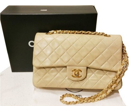 Chanel CLASSIC Double Flap 2.55